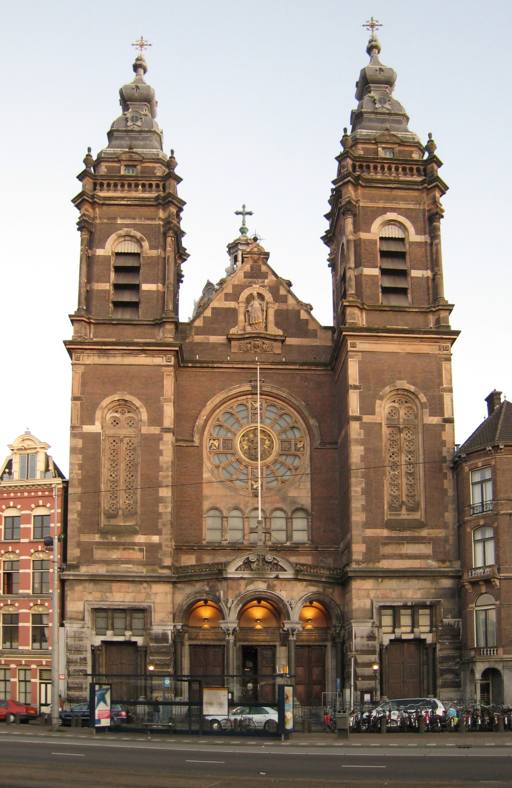 Front of the Sint Nicolaas kerk (church) in Amsterdam, Holland.